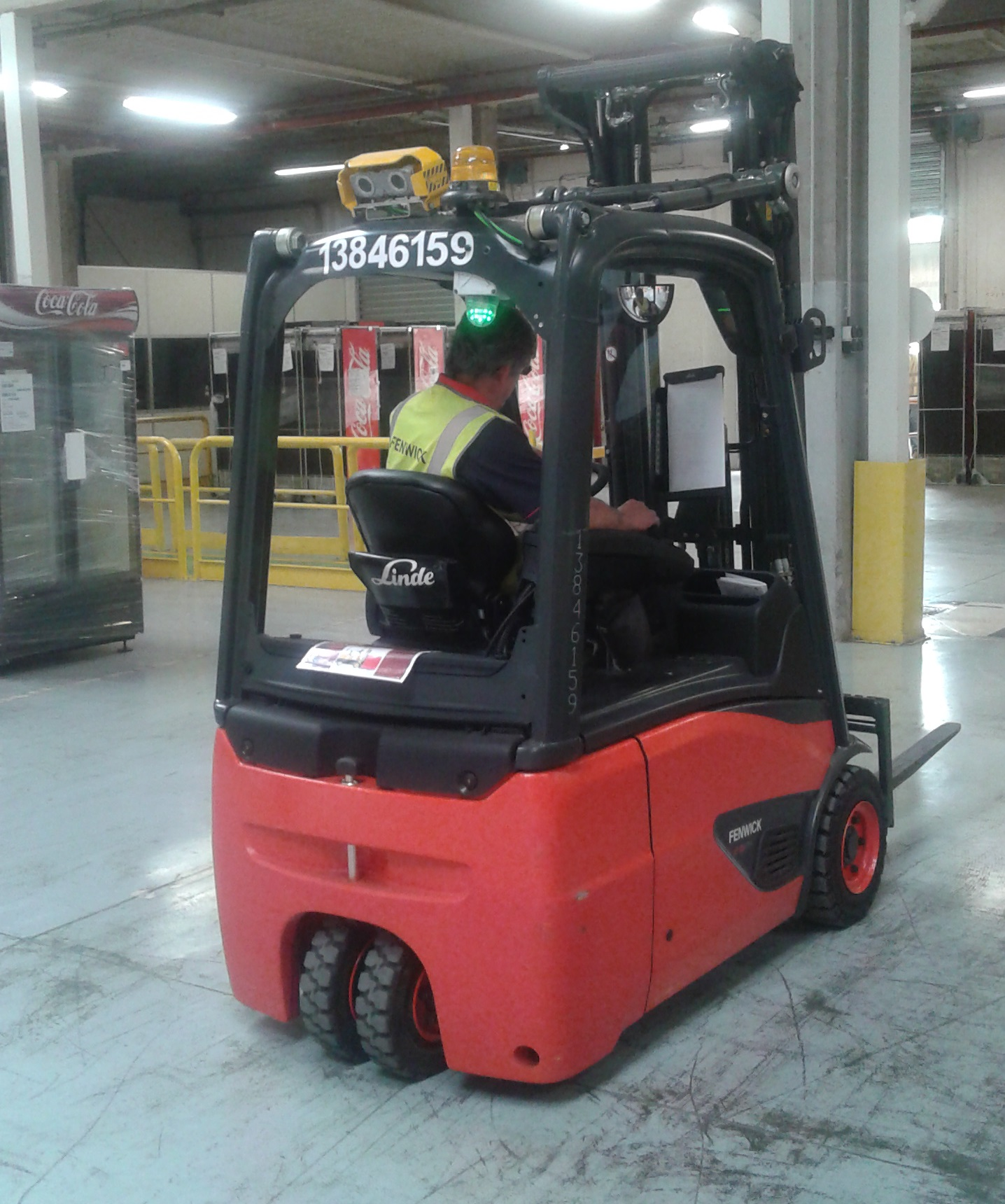 Electrical forklift